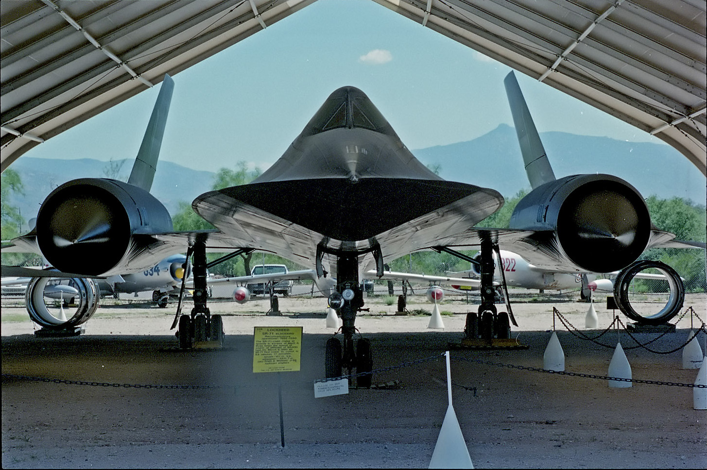 Sr-71